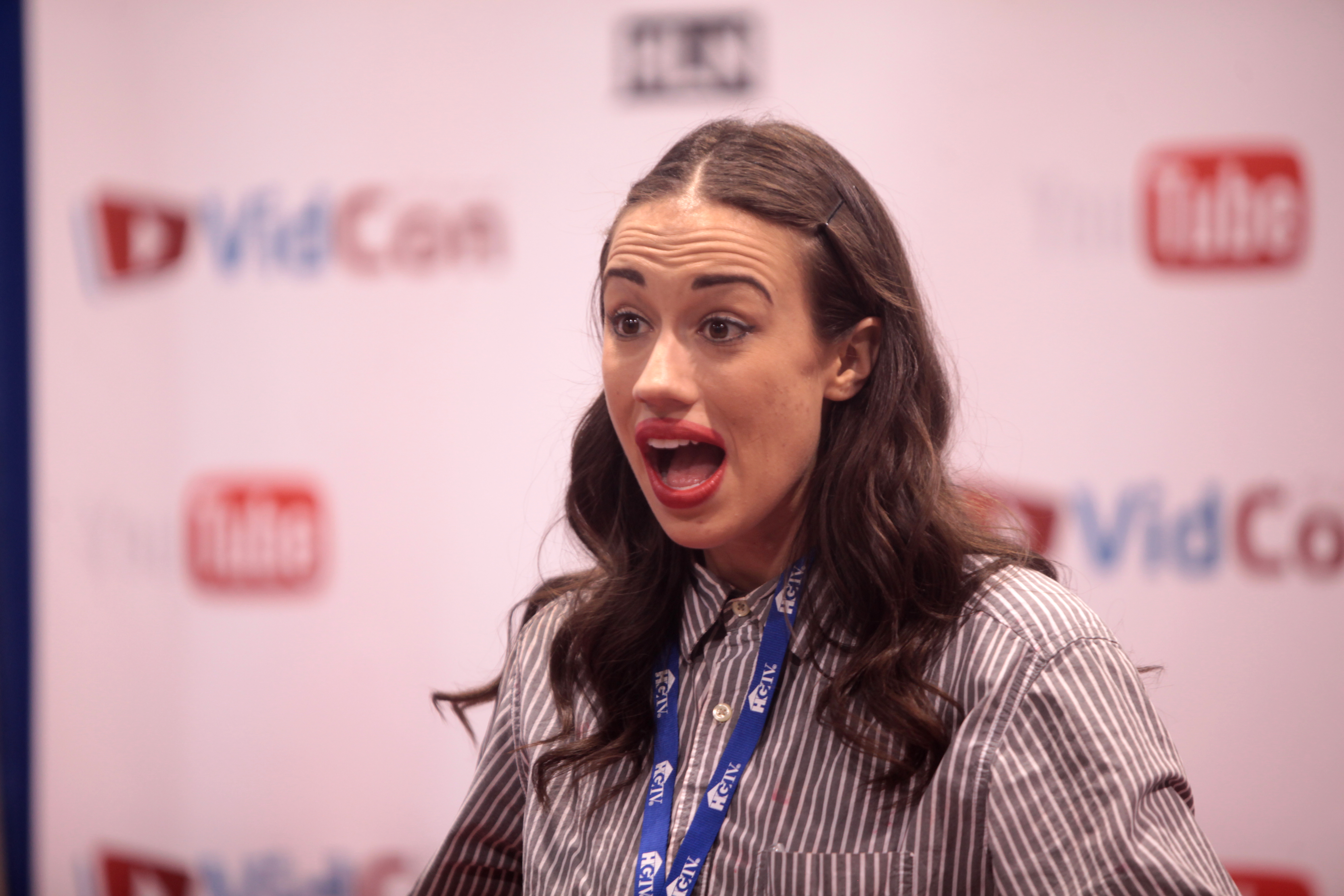 Miranda Sings speaking at the 2014 VidCon at the Anaheim Convention Center in Anaheim, California